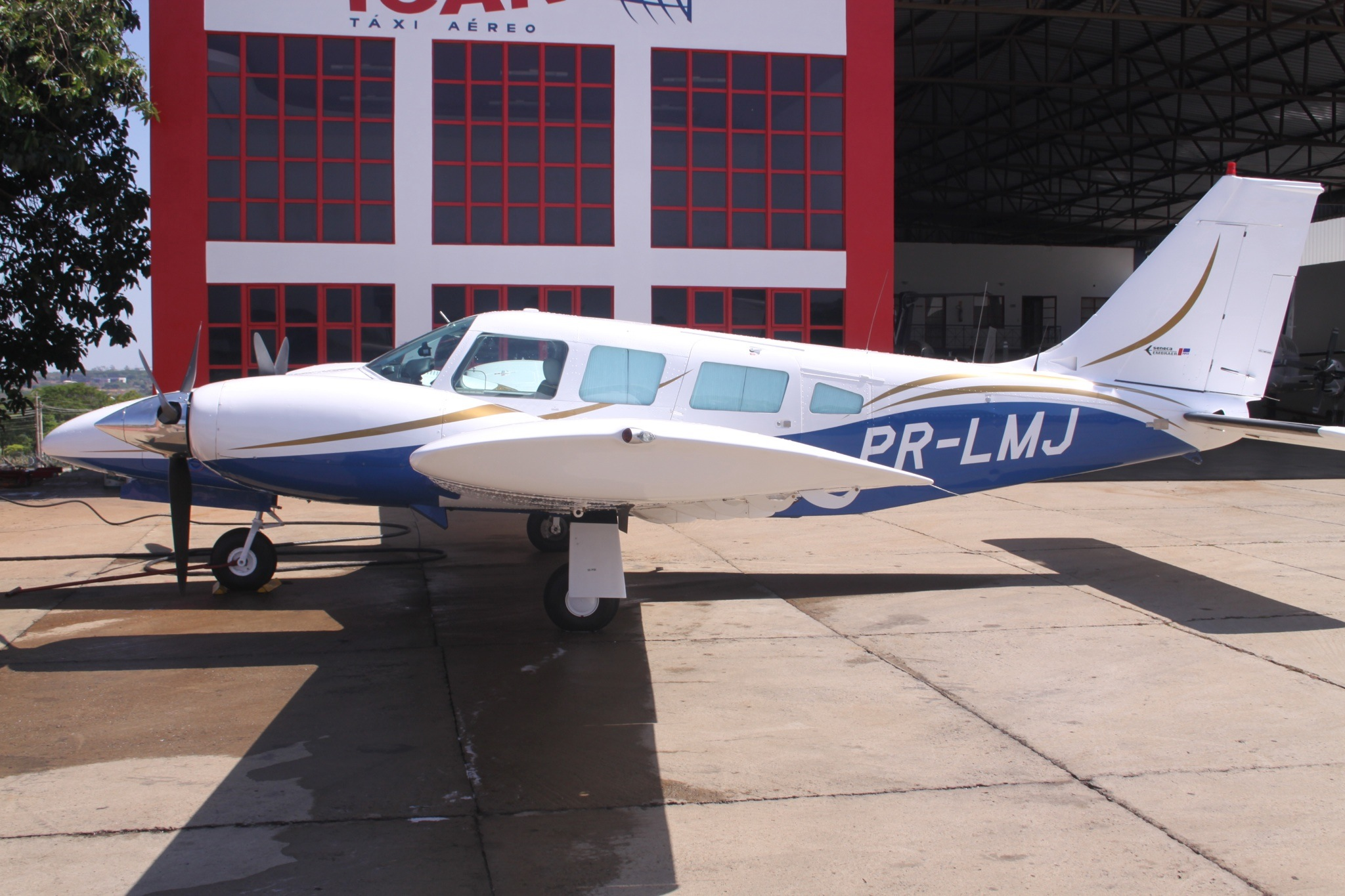 At Brasilia